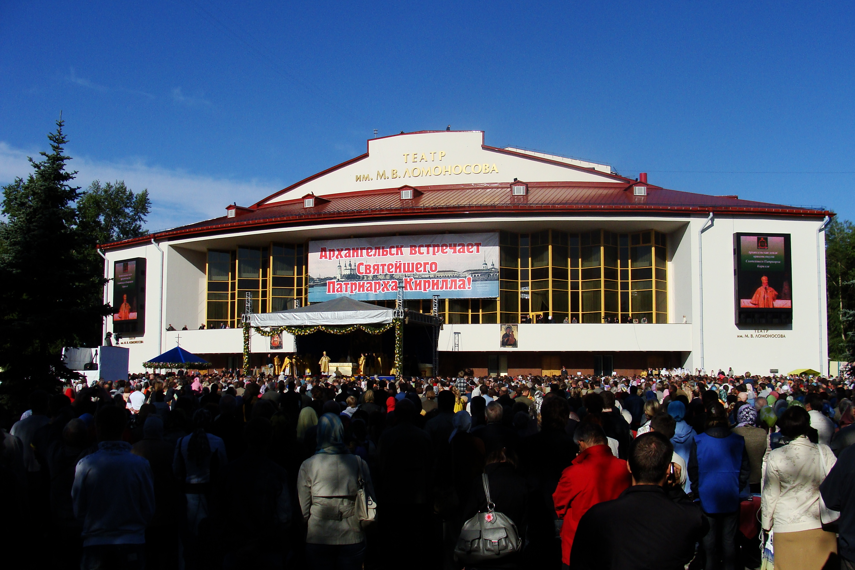 Patriarch Kirill I